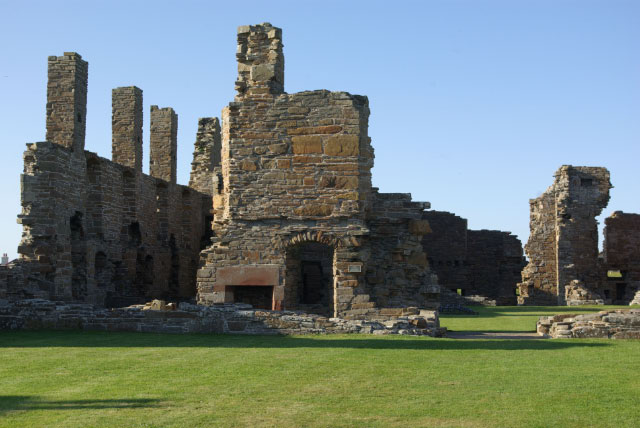 The Earl's Palace, Birsay This palace was built by Lord Robert Stewart, Earl of Orkney, an illegitimate son of James V, between 1569 and 1574. It is said that he used the forced labour of the local people and that the palace was finished to a sumptuous standard.